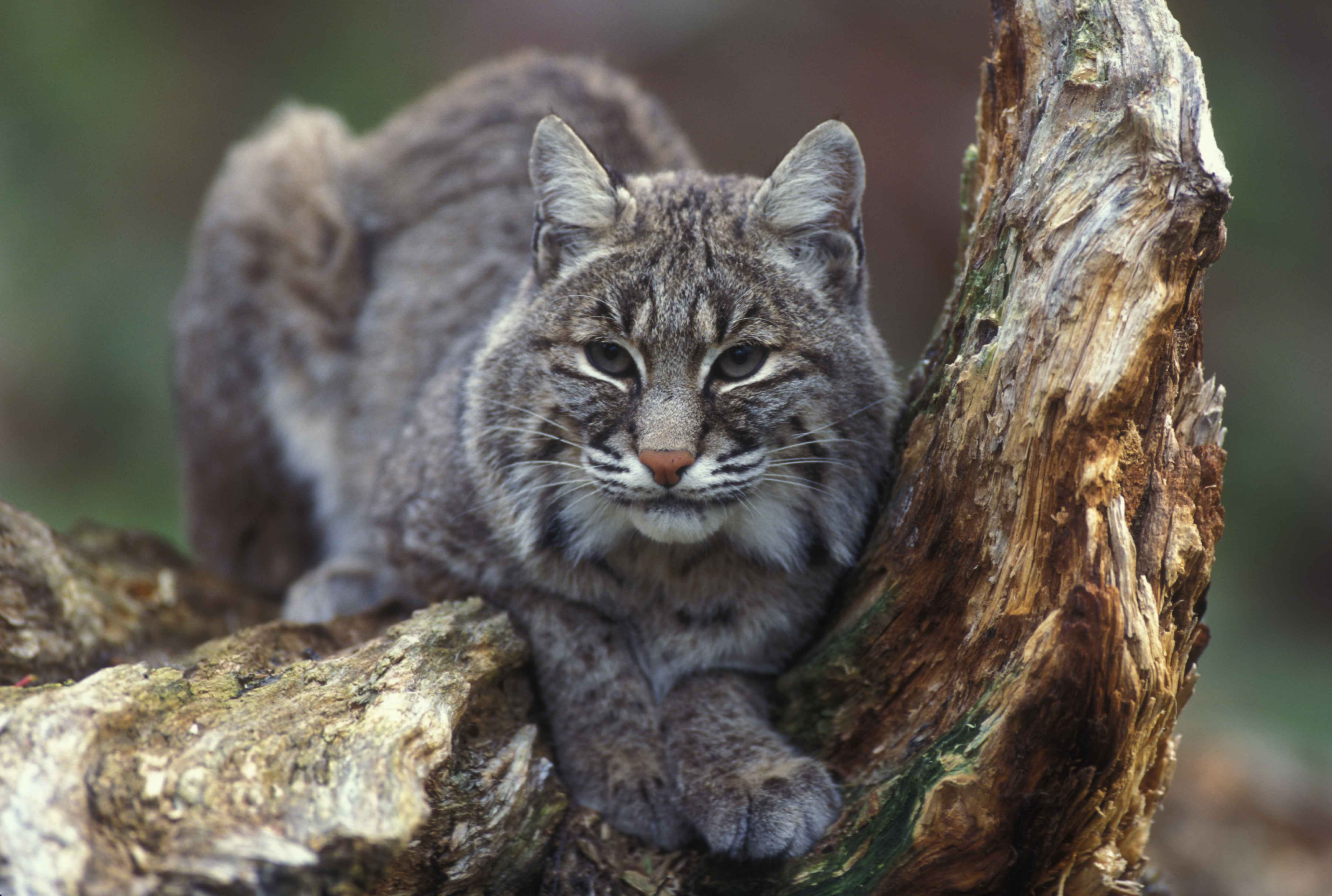 Image title: Bobcat sitting in tree Image from Public domain images website